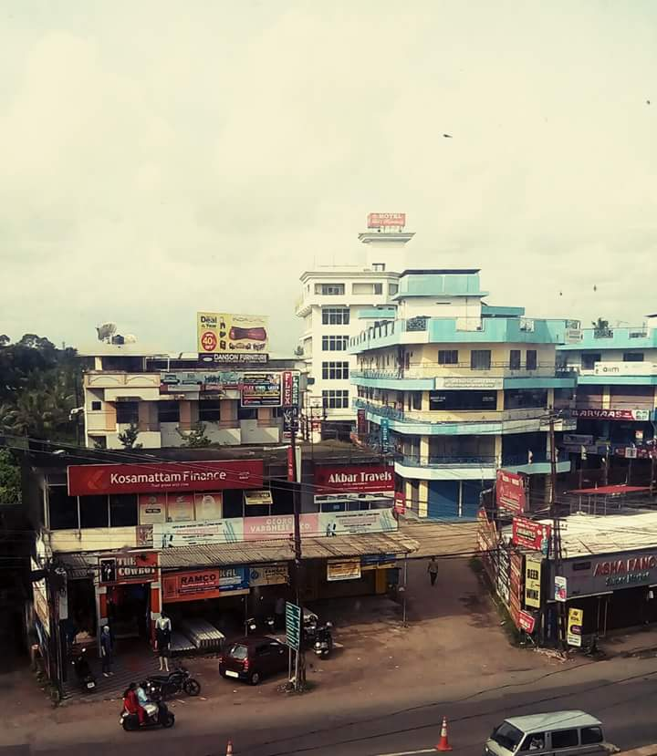 Sky-view of Adoor Central Junction